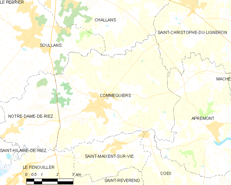 Map of French municipality Commequiers